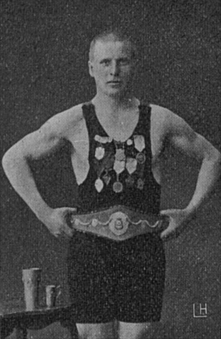 Jussi Kivimäki, a Finnish Olympic Greco-Roman wrestler, circa 1908